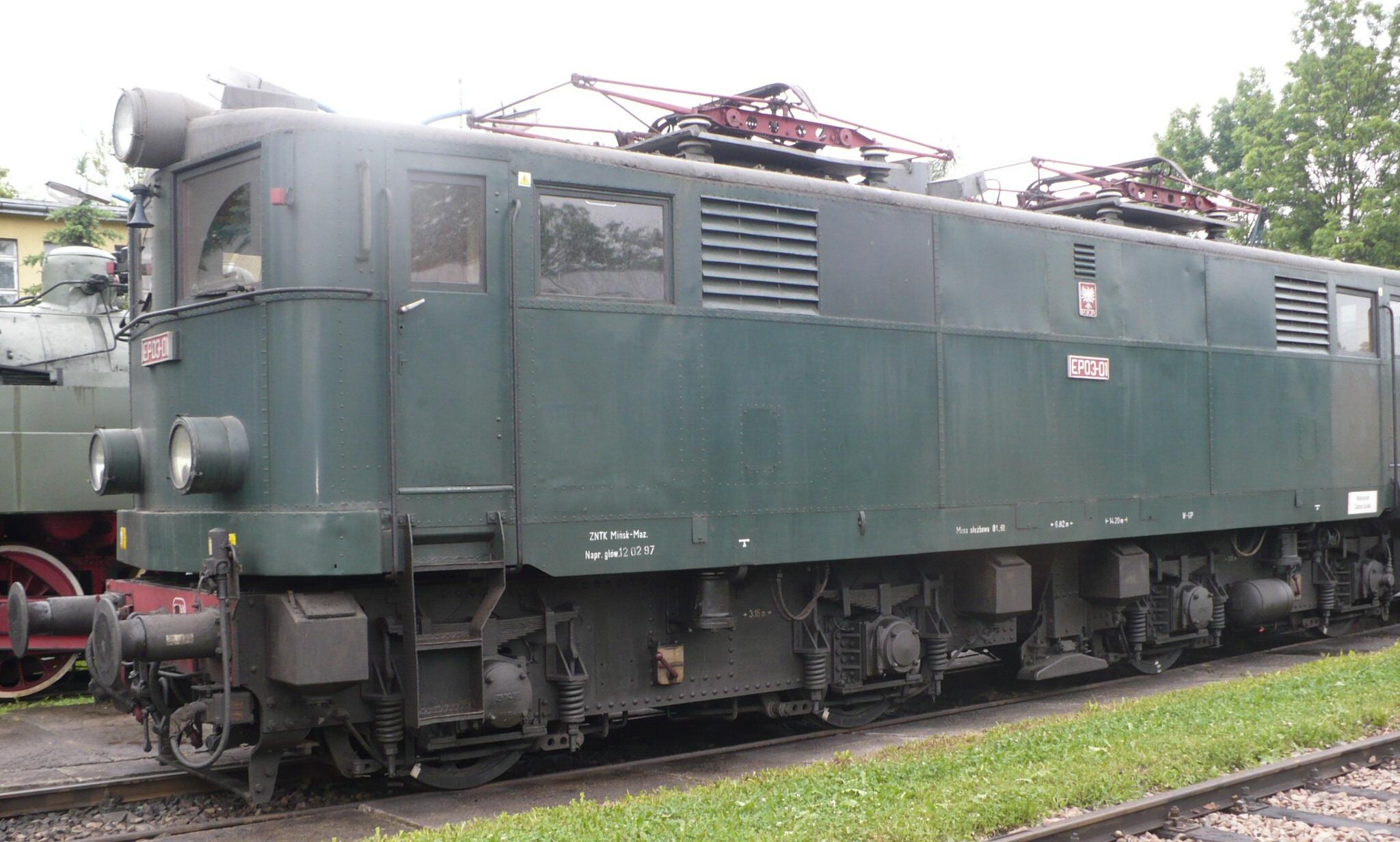 Polish passenger locomotive EP03-01. The railway museum in Chabówka, Poland